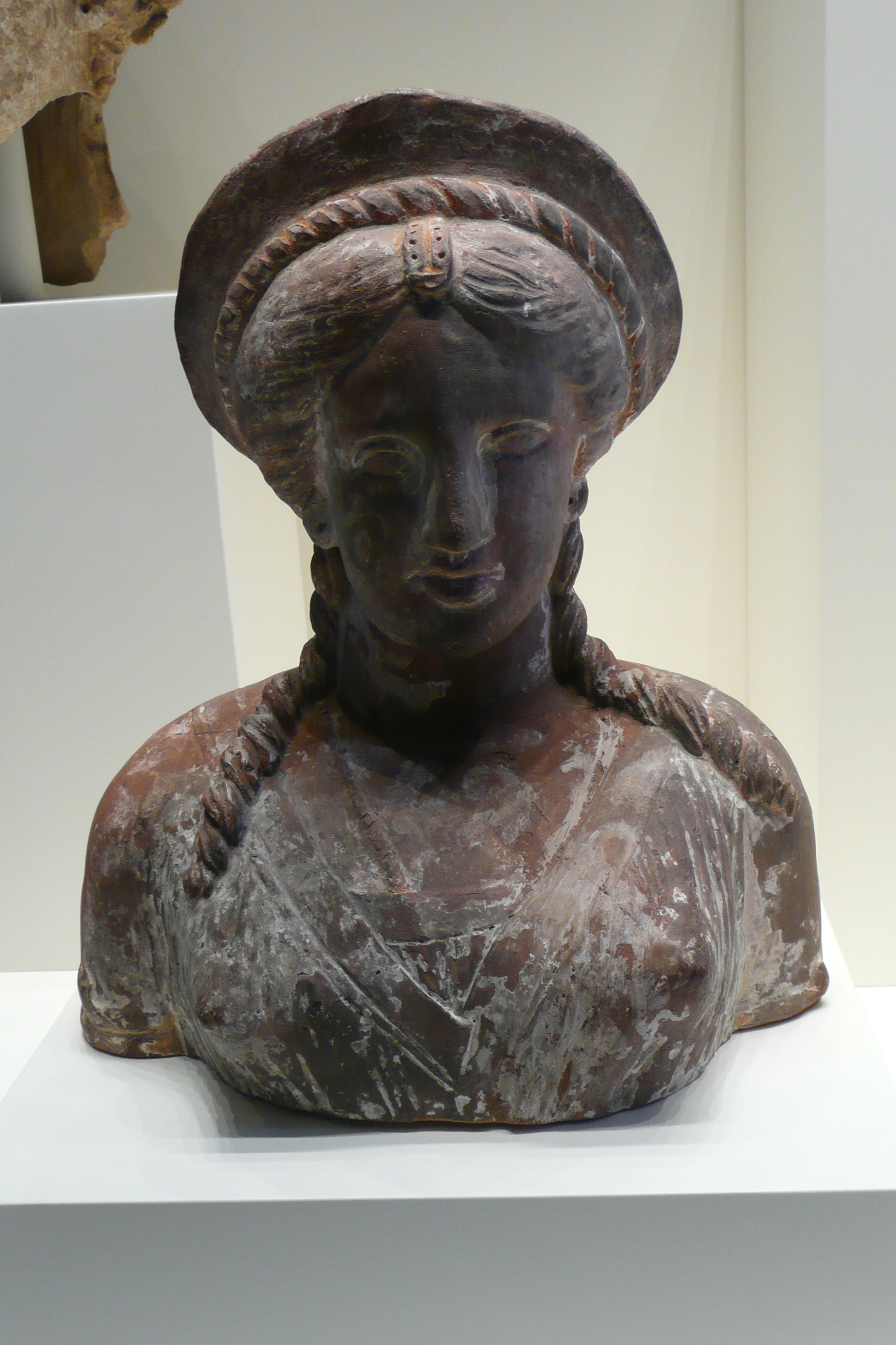 Bust of a Woman (Greek, Centuripe, Sicily, 300-200 BC)